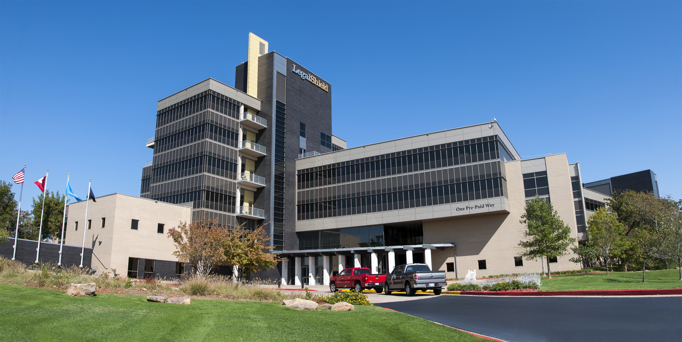 The LegalShield office building in Ada, Oklahoma.